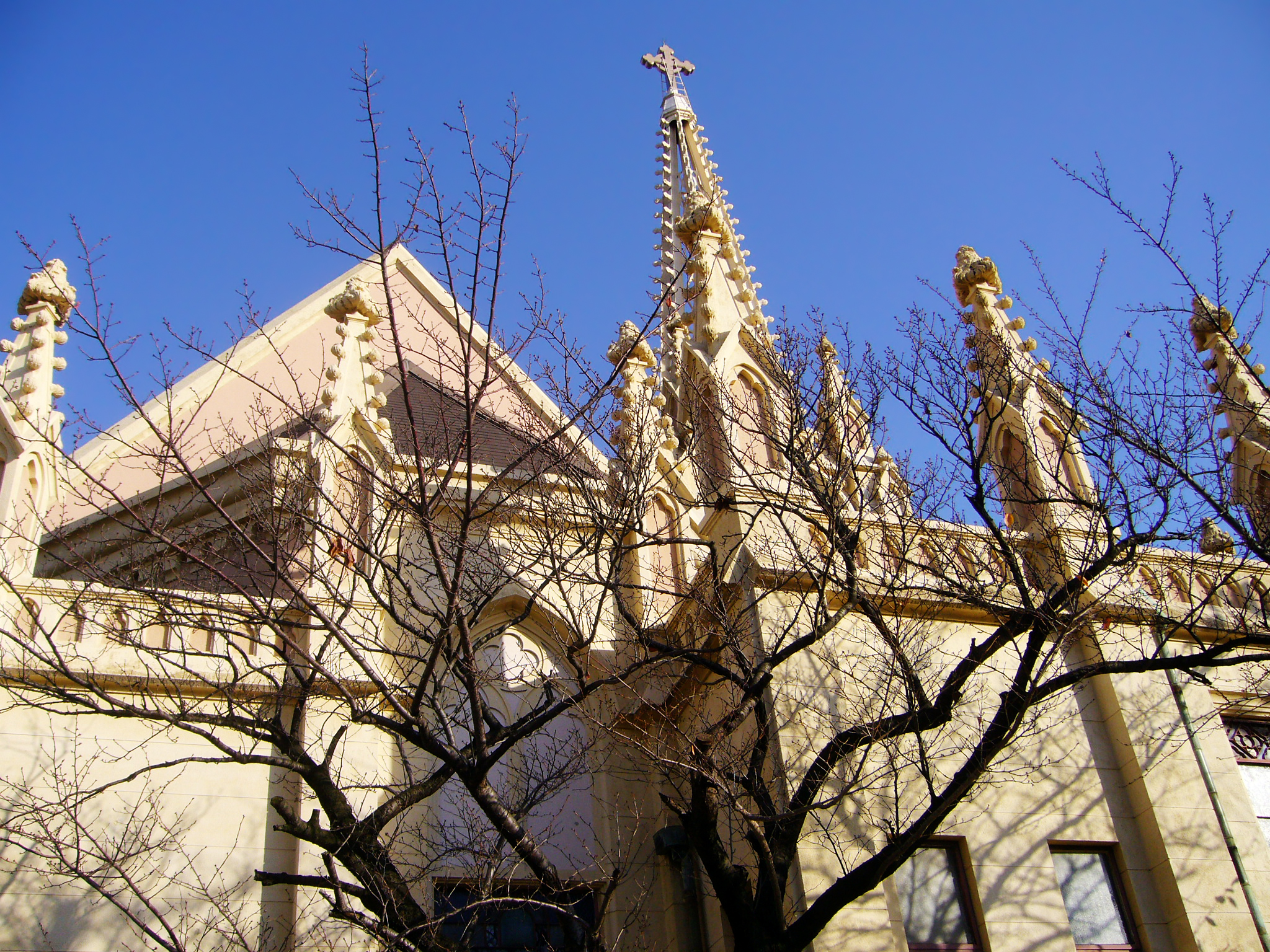 Shukugawa Catholic Church in Nishinomiya, Hyogo prefecture, Japan